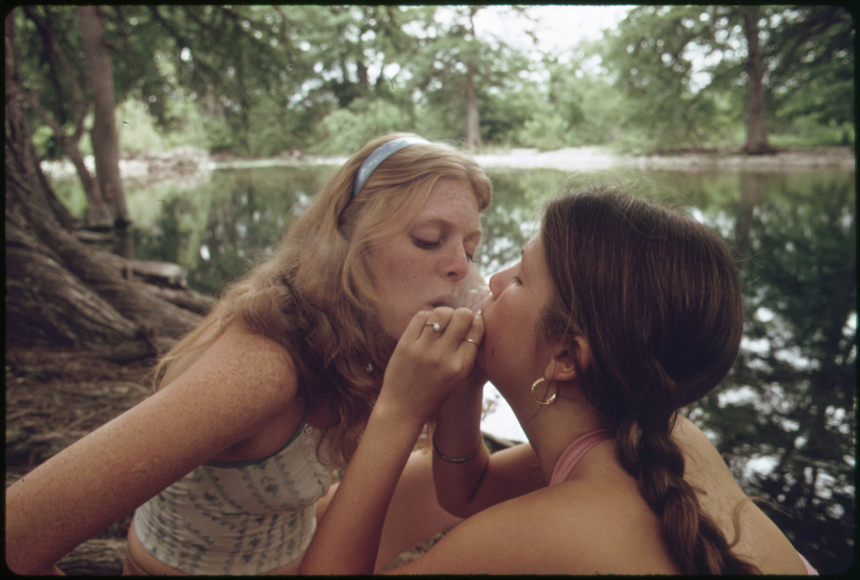 Two girls smoking pot during an outing in Cedar Woods near Leakey, Texas.